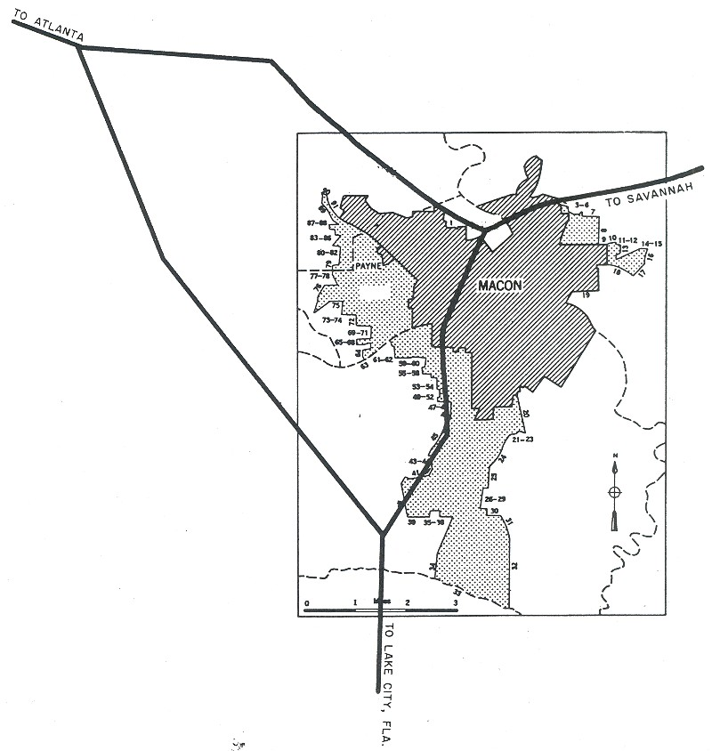 Interstates in today's terms I-16 I-75 I-475